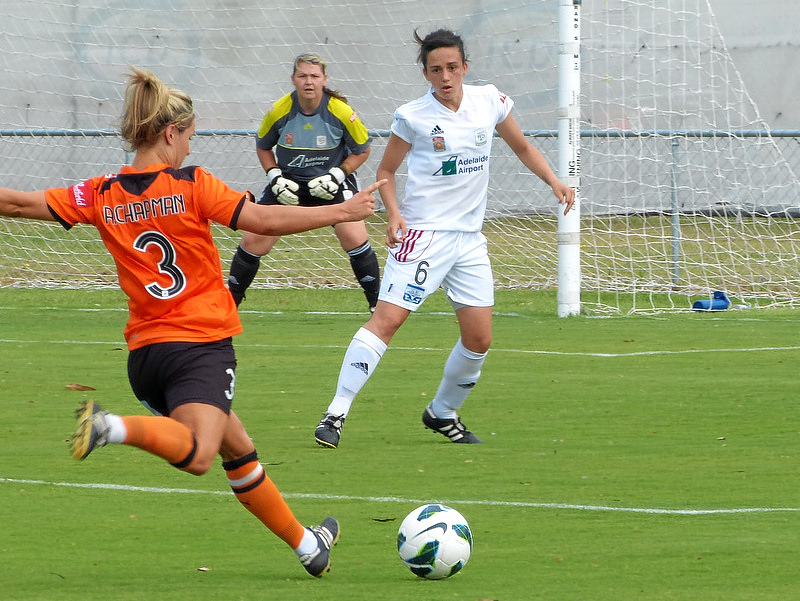 Brisbane Roar Women (Amy Chapman #3) vs. Adelaide United Women (Cassandra "Cassie" Tsoumbris #6) Season 2012/13